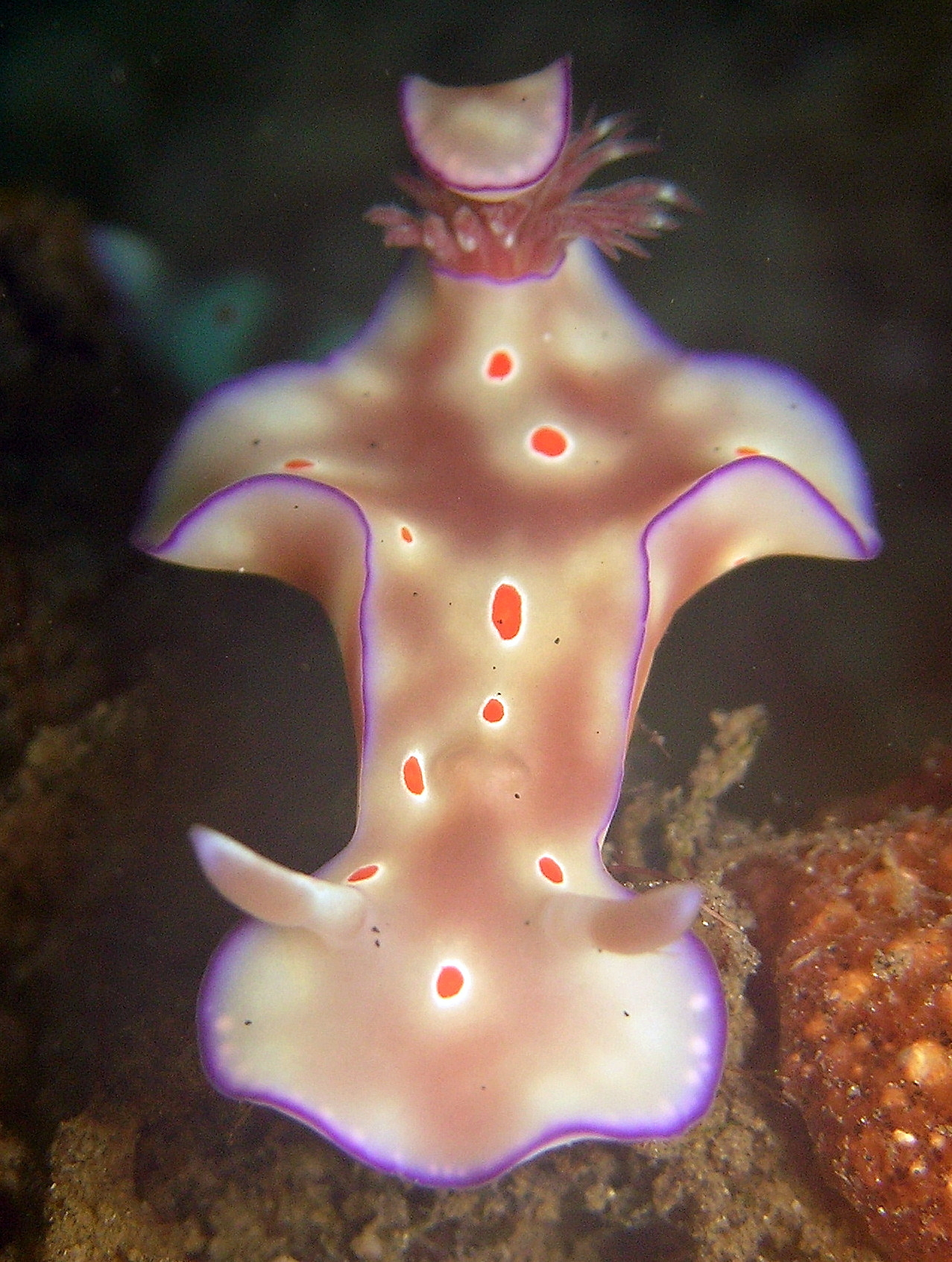 The nudibranch seaslug Ceratosoma trilobatum from Lembeh Straits, Indonesia